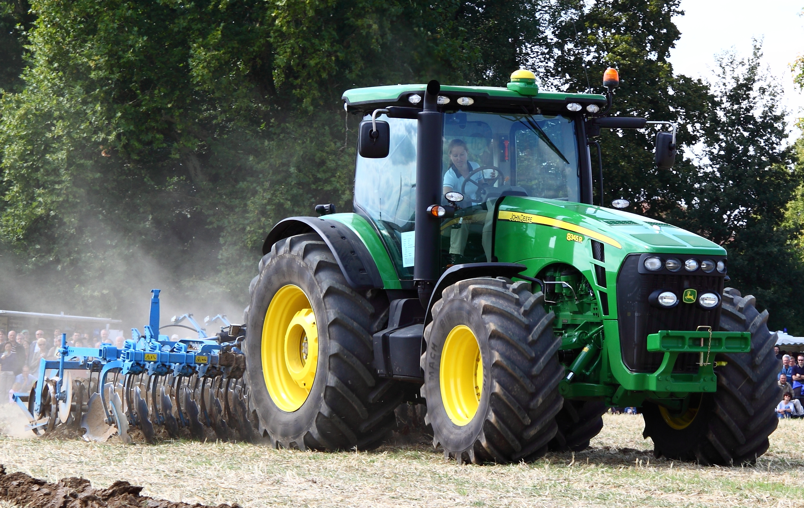 John Deere 8345R tractor with Lemken disk harrow on a field day at the Stuttgart-Hohenheim AG University, Germany.